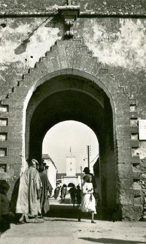 Bab al kasbah Mohammedia and the mosk Al Atik in the background 1965